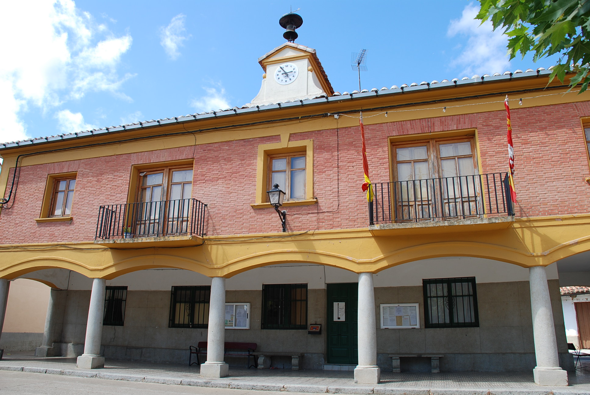 Town hall of Sotobañado y Priorato (Palencia, Castile and León).